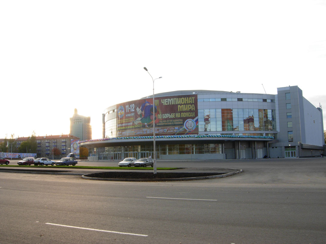 Ufa-Arena